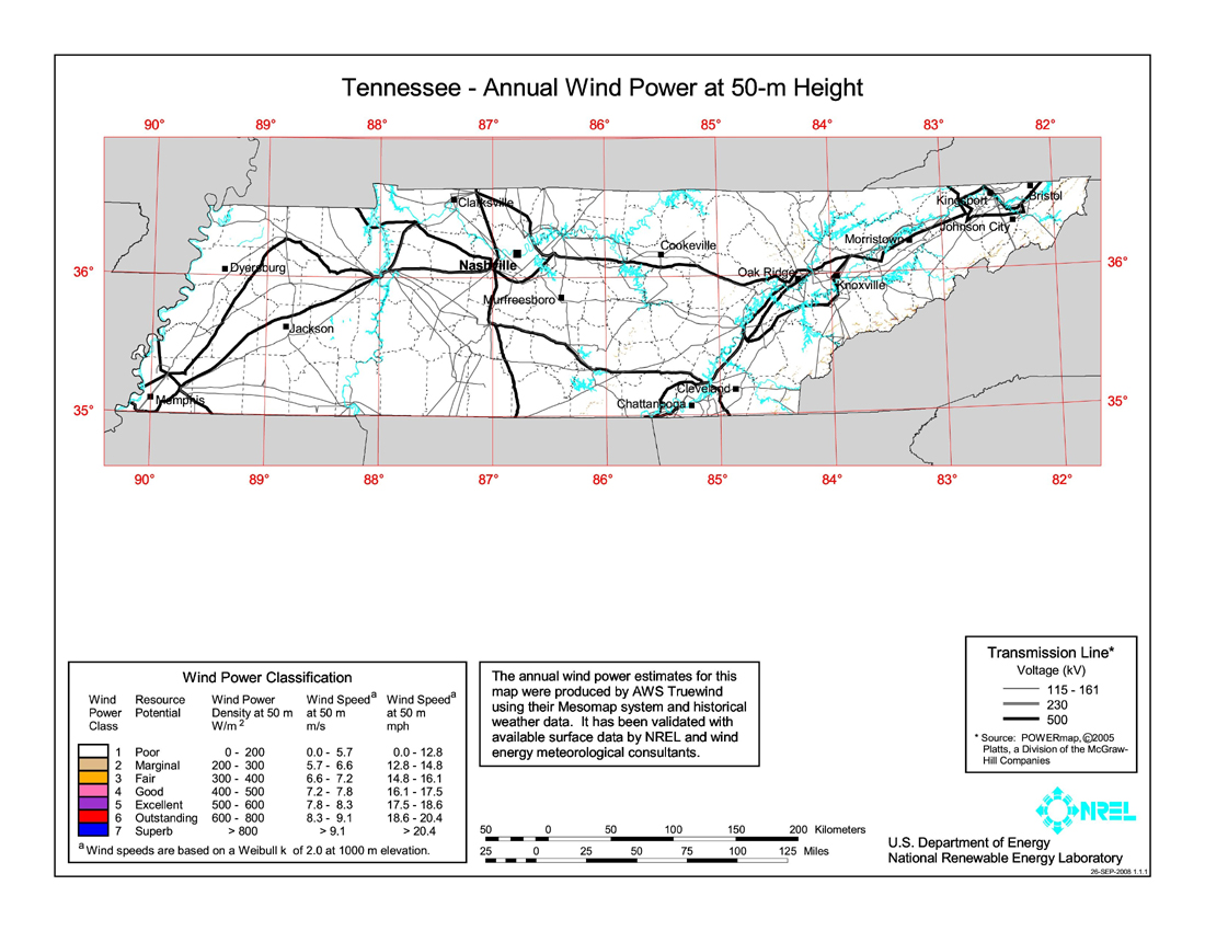 Average annual wind power distribution for Tennessee, 50m height above ground, also showing location of existing electrical transmission lines